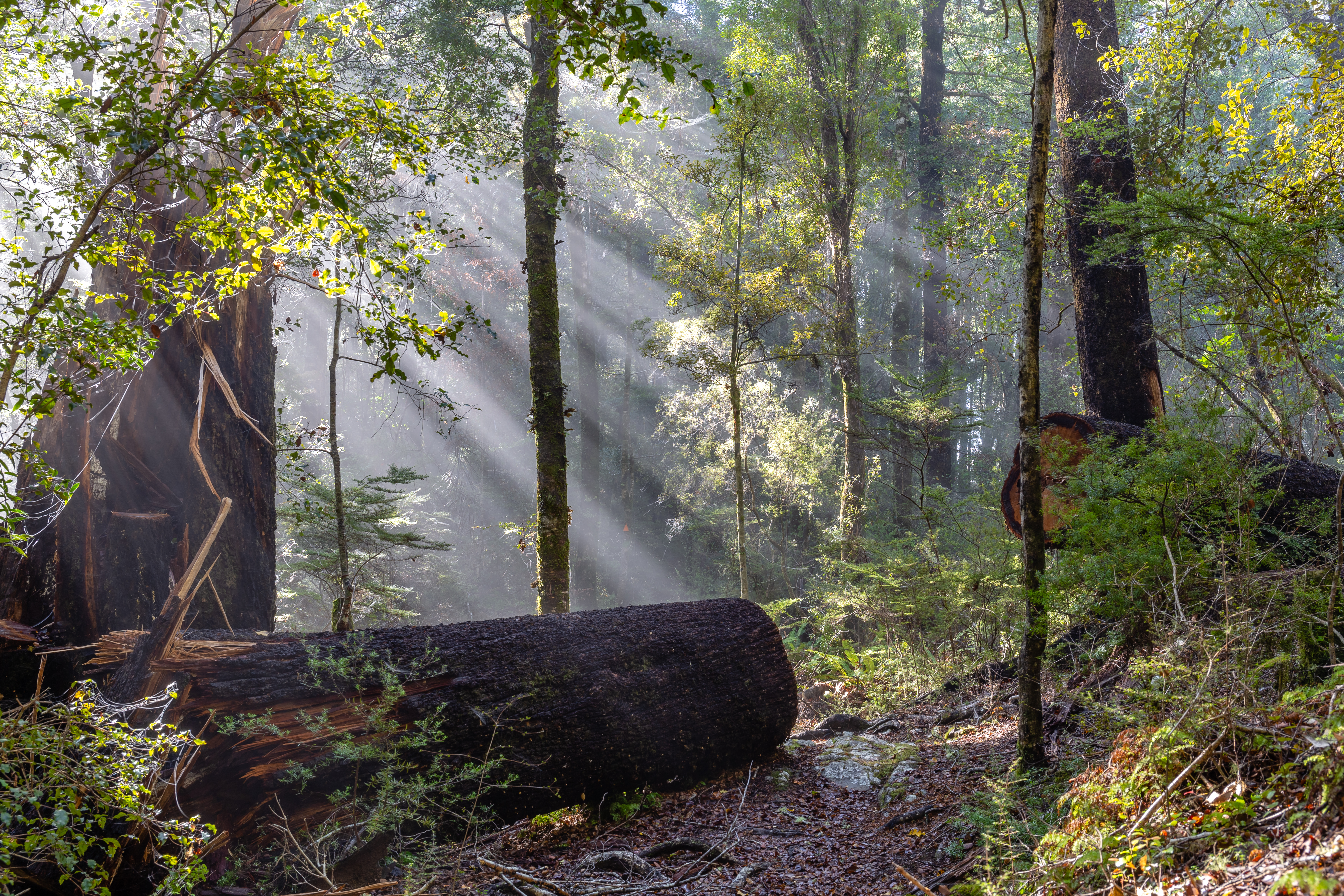 Sun getting through fog in the New Zealand bush, Bryant Range. The picture was taken on the trail between Rocks Hut and Middle Creek Hut. This section is part of Te Araroa Trail